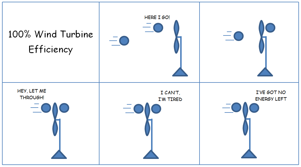 Simple cartoon of two air molecules shows why wind turbines cannot actually run at 100% efficiency.